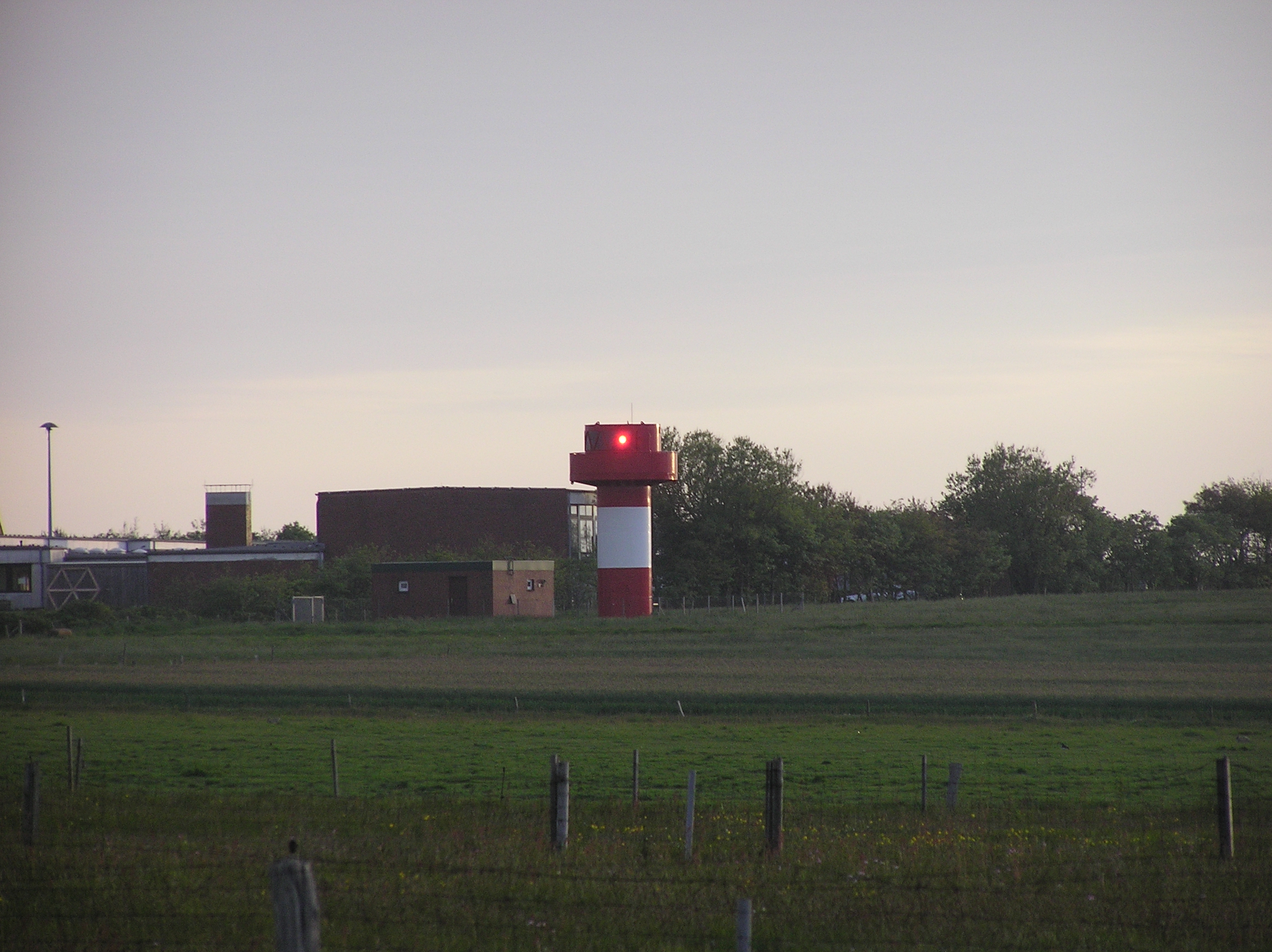 Lighthouse Nebel/amrum